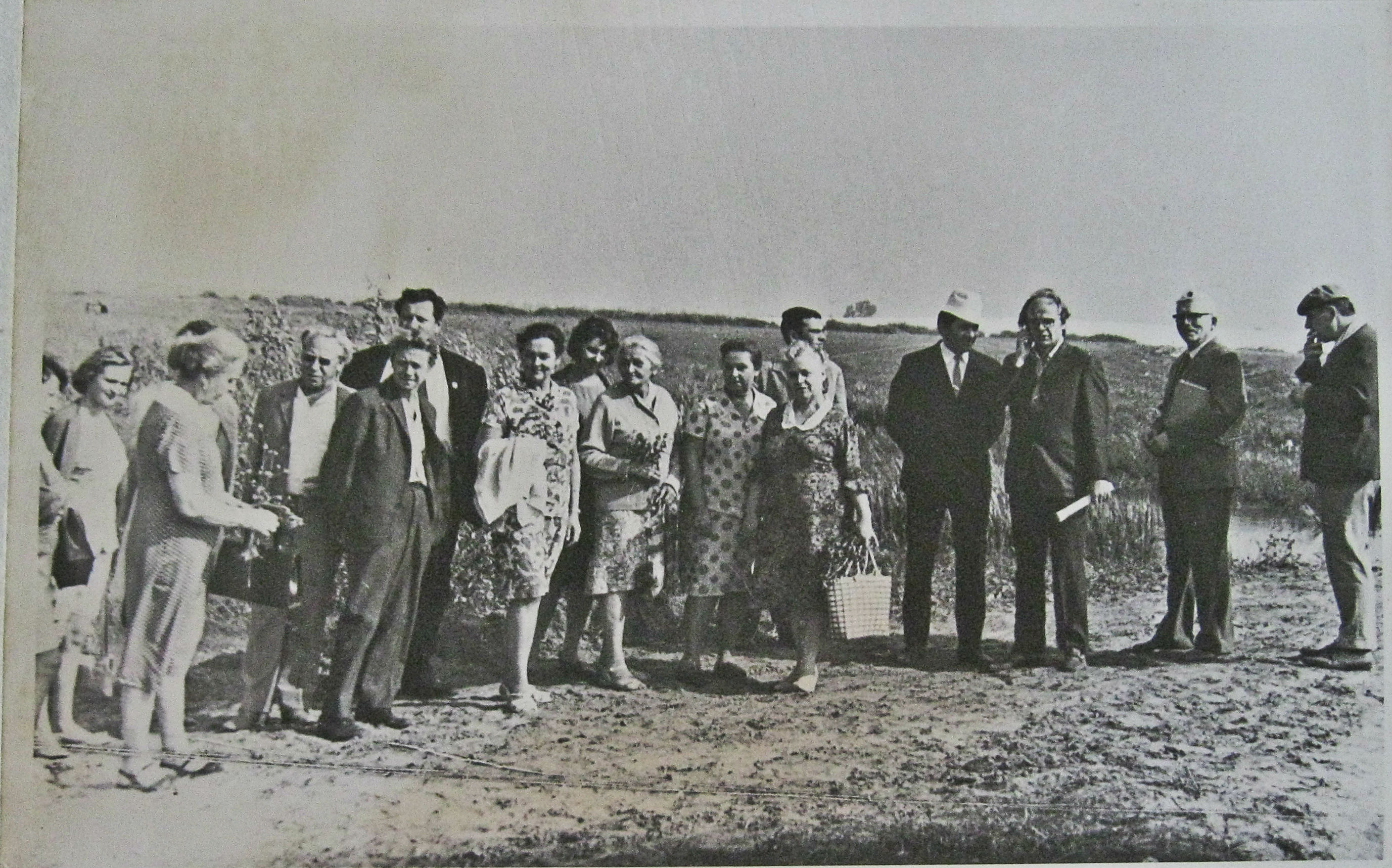 10 сентября 1972 года. Фото на фоне района Оболонь перед его застройкой. Созданная Олесем Силиным экспедиция общественных деятелей Украины. Справа Олесь Силин, рядом поэт Иван Драч.